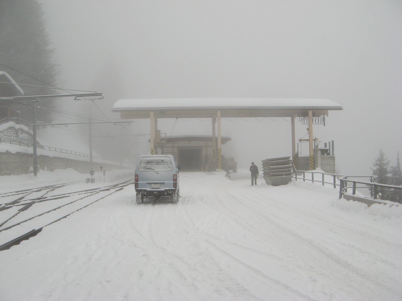 Murren Railway Station in December 2008